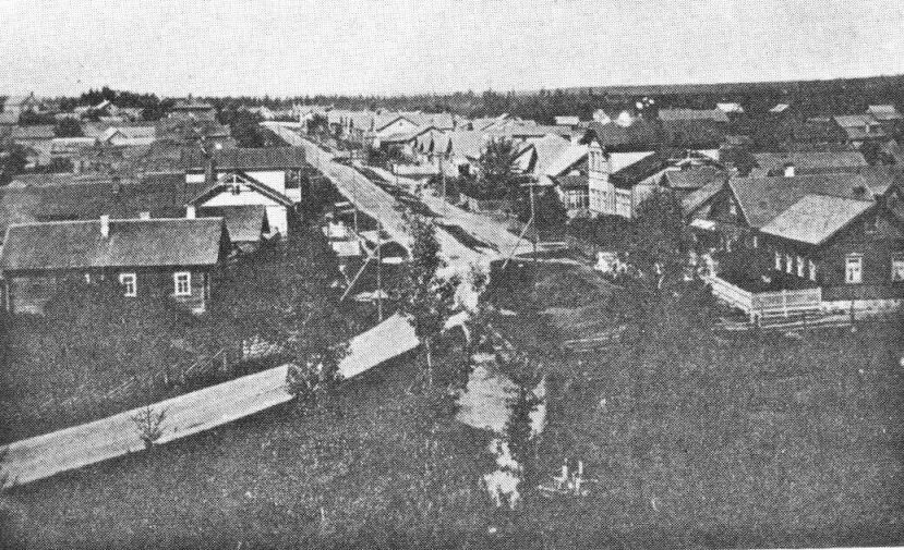 Street view in Kyyrölä before Winterwar.